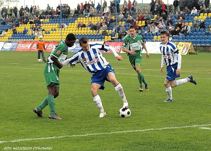 Wigry Suwałki against Sokol - season 09/10.